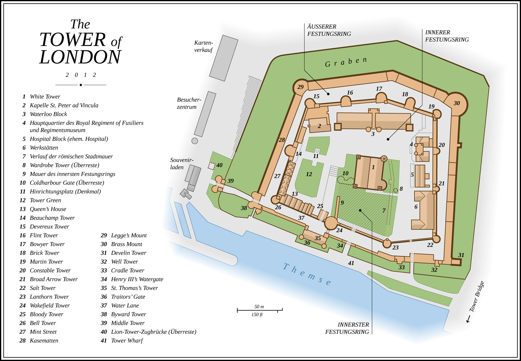 Map of the Tower of London (German version)